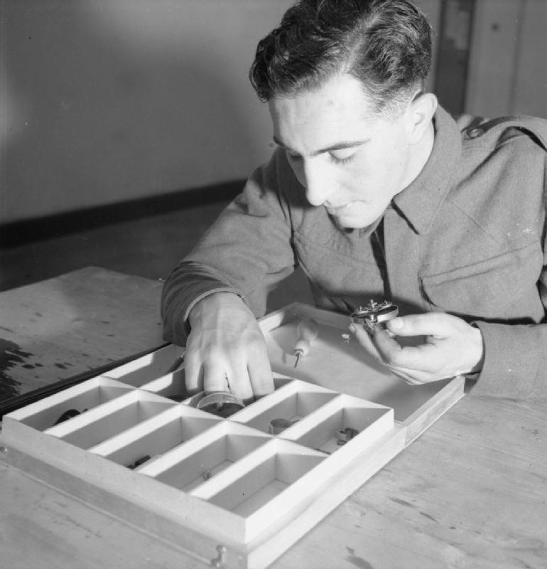 A Recruit Joins the British Army The new recruit, Bill Jones, undertakes a mechanical ability test as part of his army selection board.